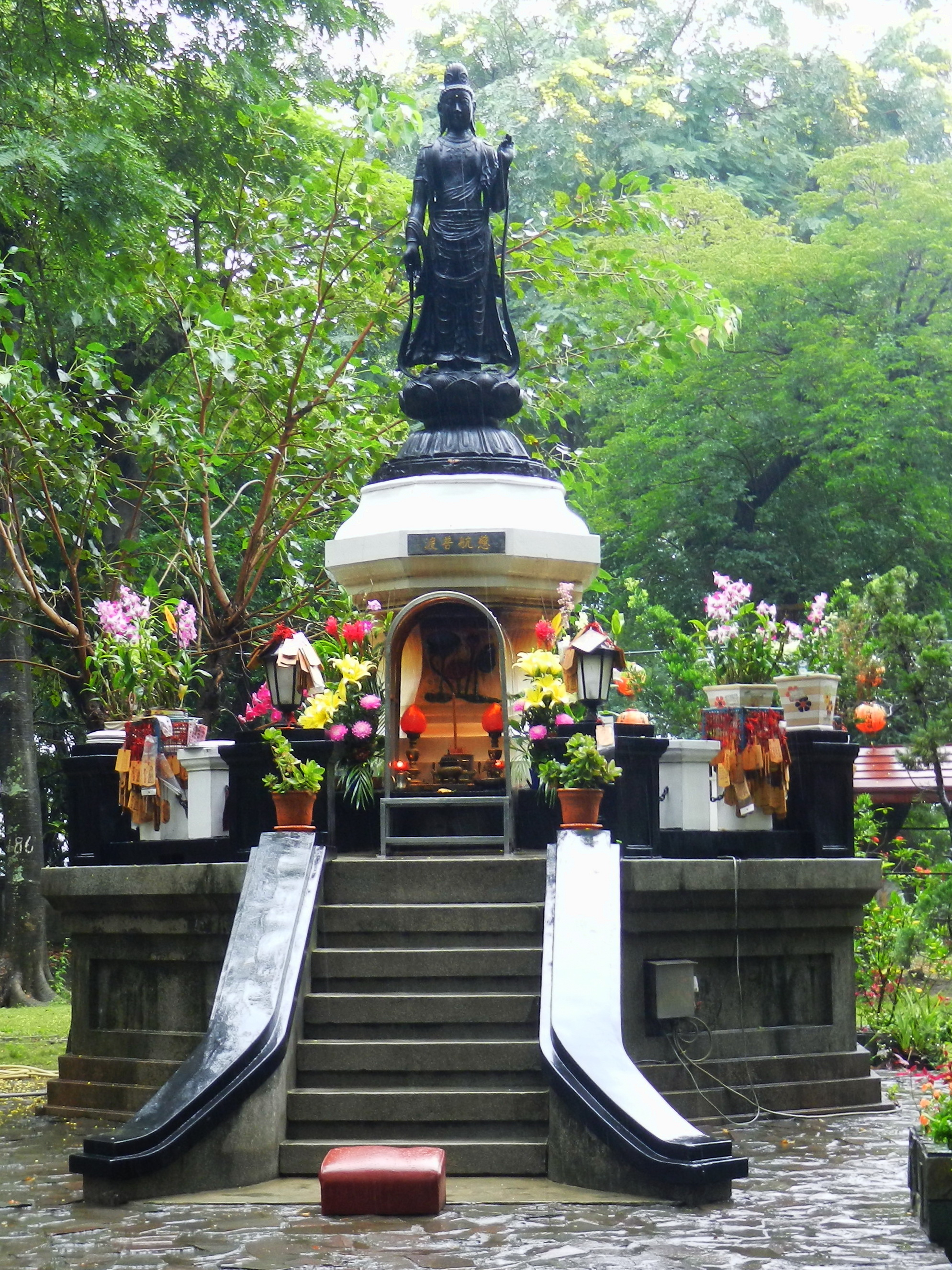 Bronze Guanyin in Qiaotou Sugar Refinery 橋頭糖廠銅觀音